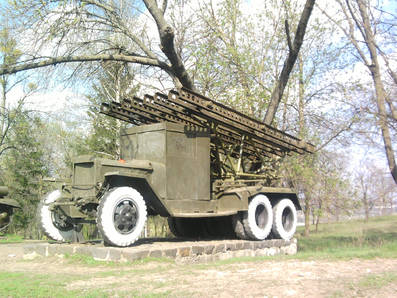 Katyusha in Izyum? Ukraine